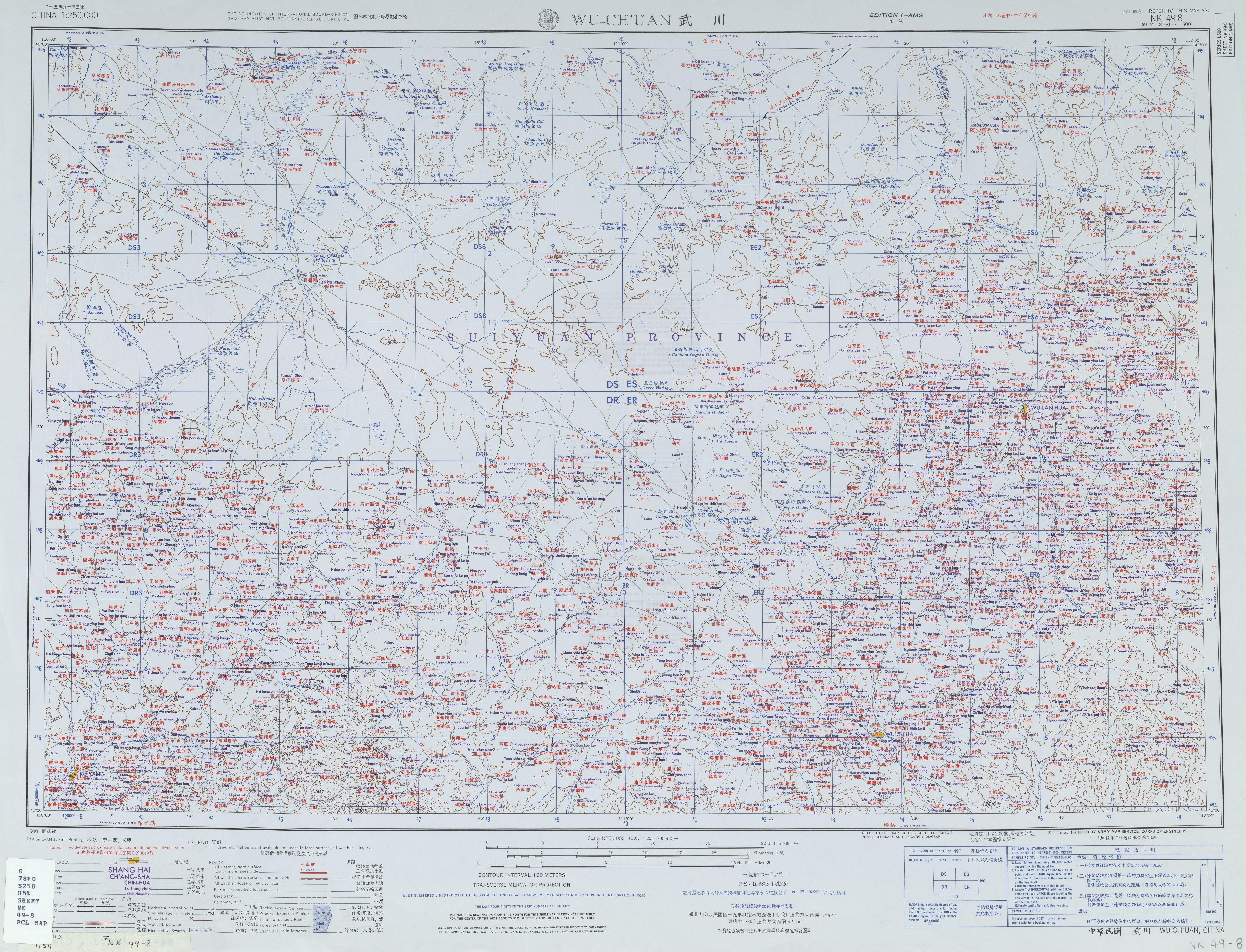 China AMS Topographic Maps